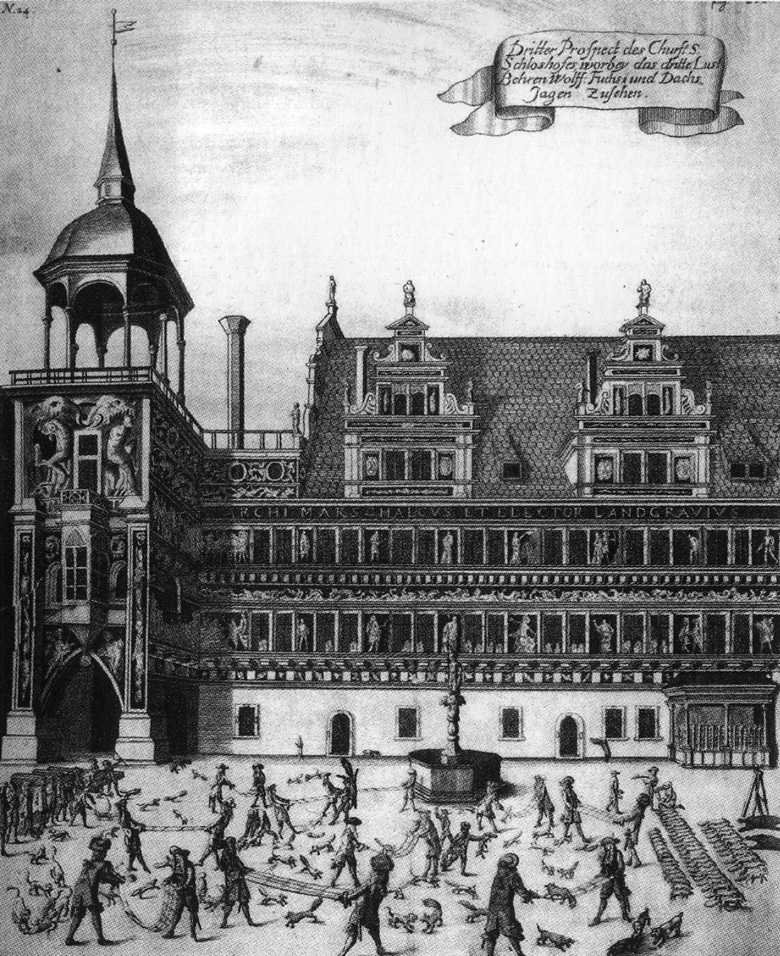 Fox tossing at the Elector's Palace, Dresden, 1678. From Gabriel Tzschimmer, Die durchlauchtigste Zusammenkunfft (Nuremburg, 1680)